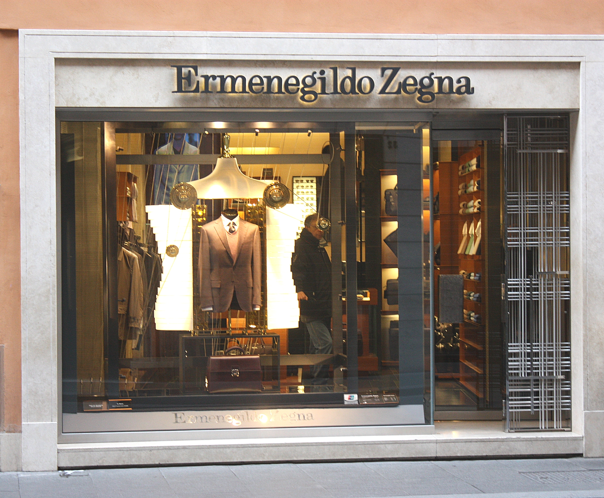 Rome, boutique on the street Via Condotti